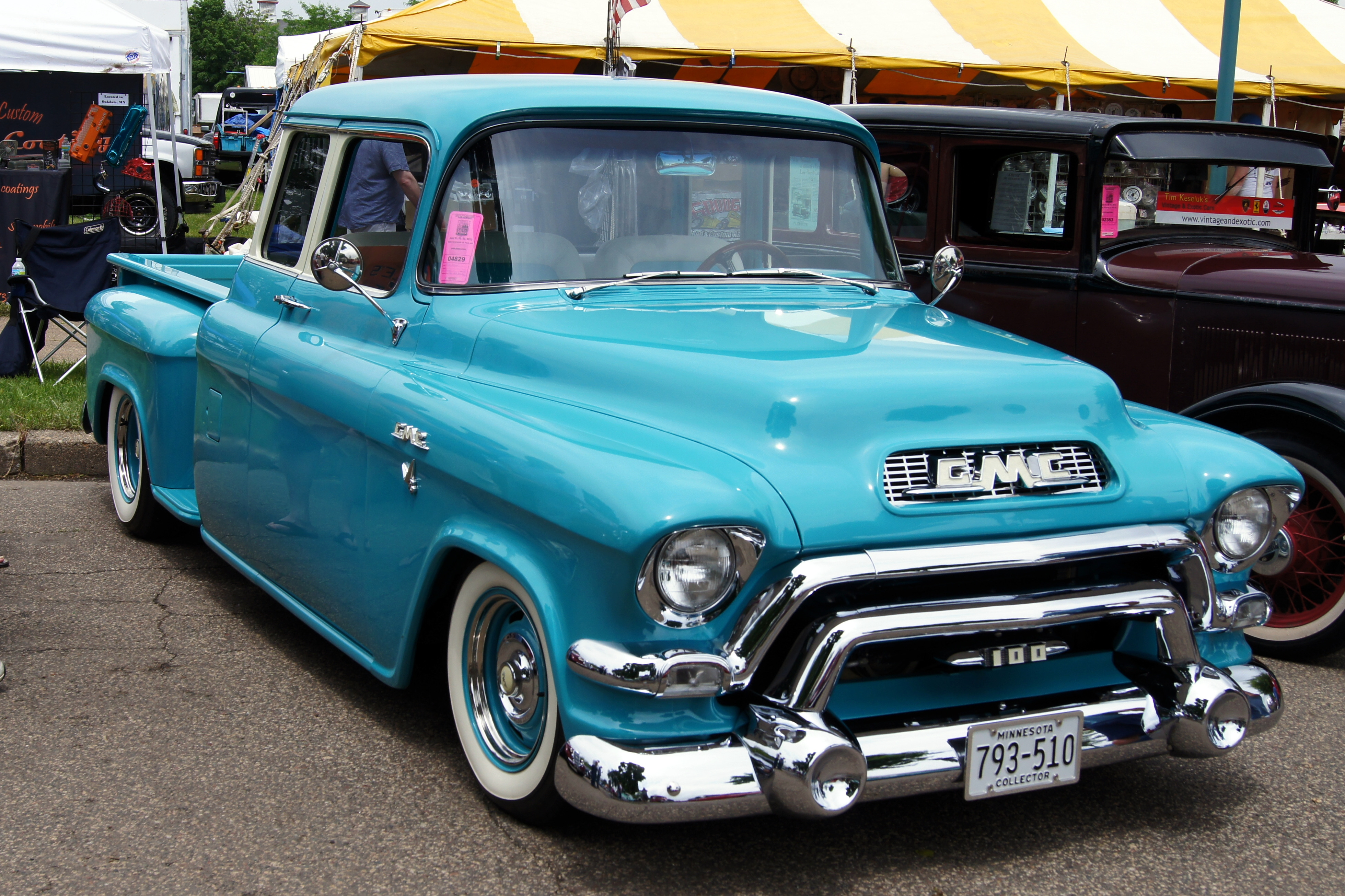 MSRA “BACK TO THE 50′s” 40th ANNIVERSARY June 21-23, 2013 State Fairgrounds St. Paul Minnesota More Car Pictures